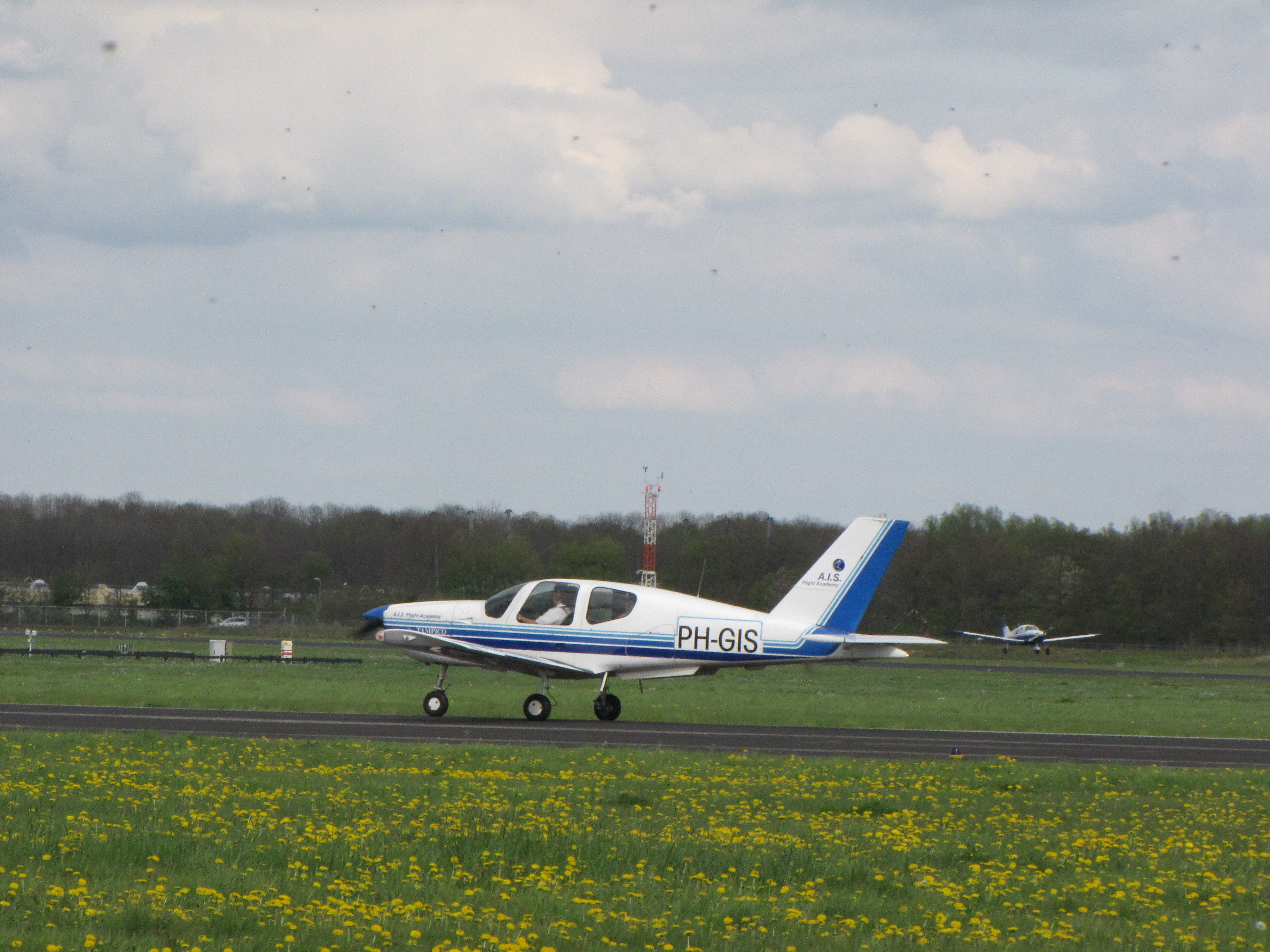 Socata TB-9C Tampico Club. Airline: AIS Flight Academy